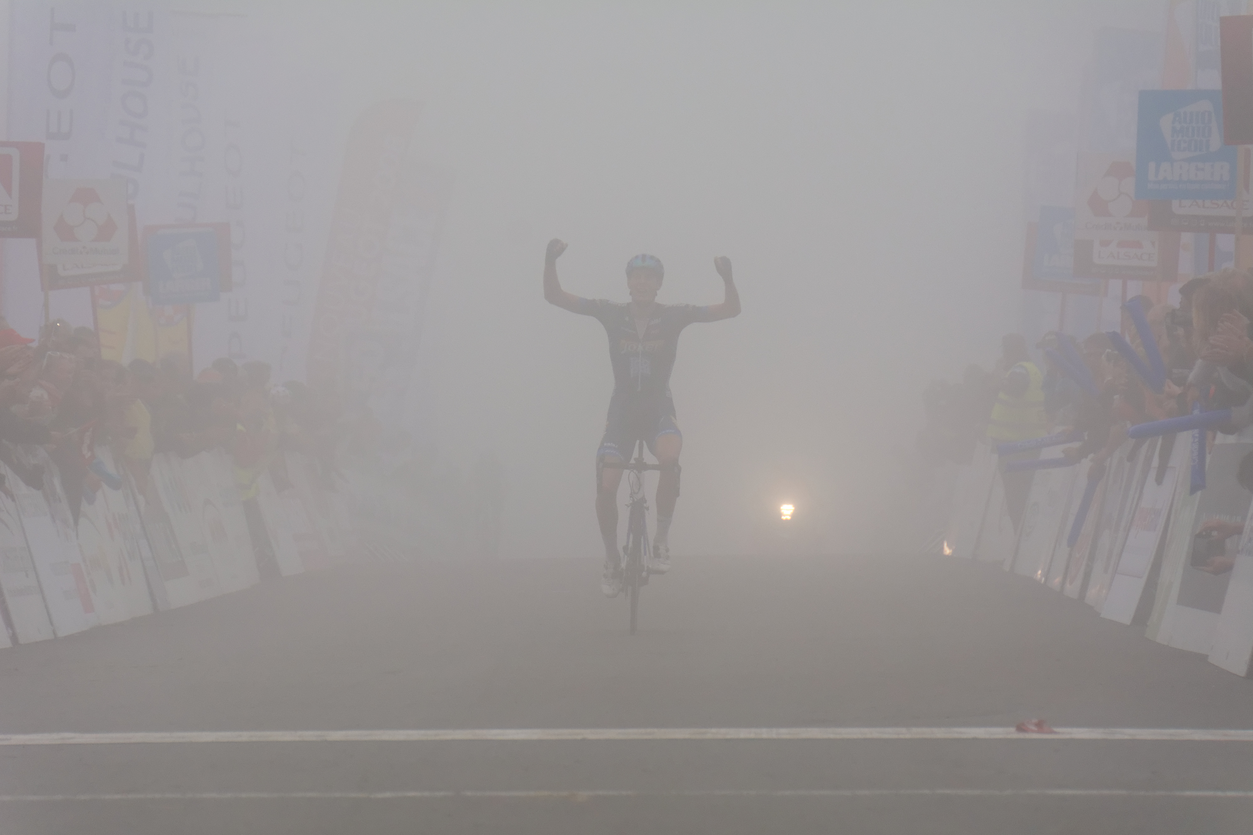 Personality rights warningAlthough this work is freely licensed or in the public domain, the person(s) shown may have rights that legally restrict certain re-uses unless those depicted consent to such uses. In these cases, a model release or other evidence of consent could protect you from infringement claims.